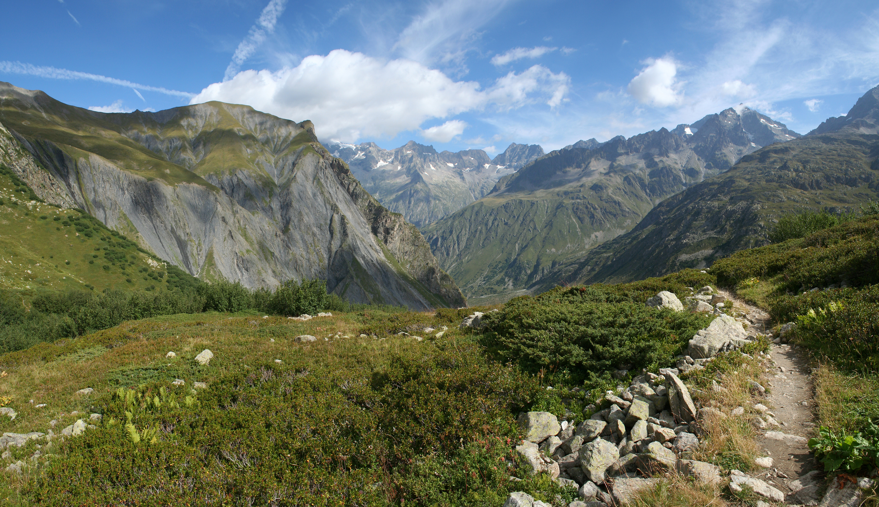 View of Haute Severaisse valley and surrounding summits from the slopes of Les Vernets. Valgaudemar, Southern Alps. Downsampling of a larger picture.